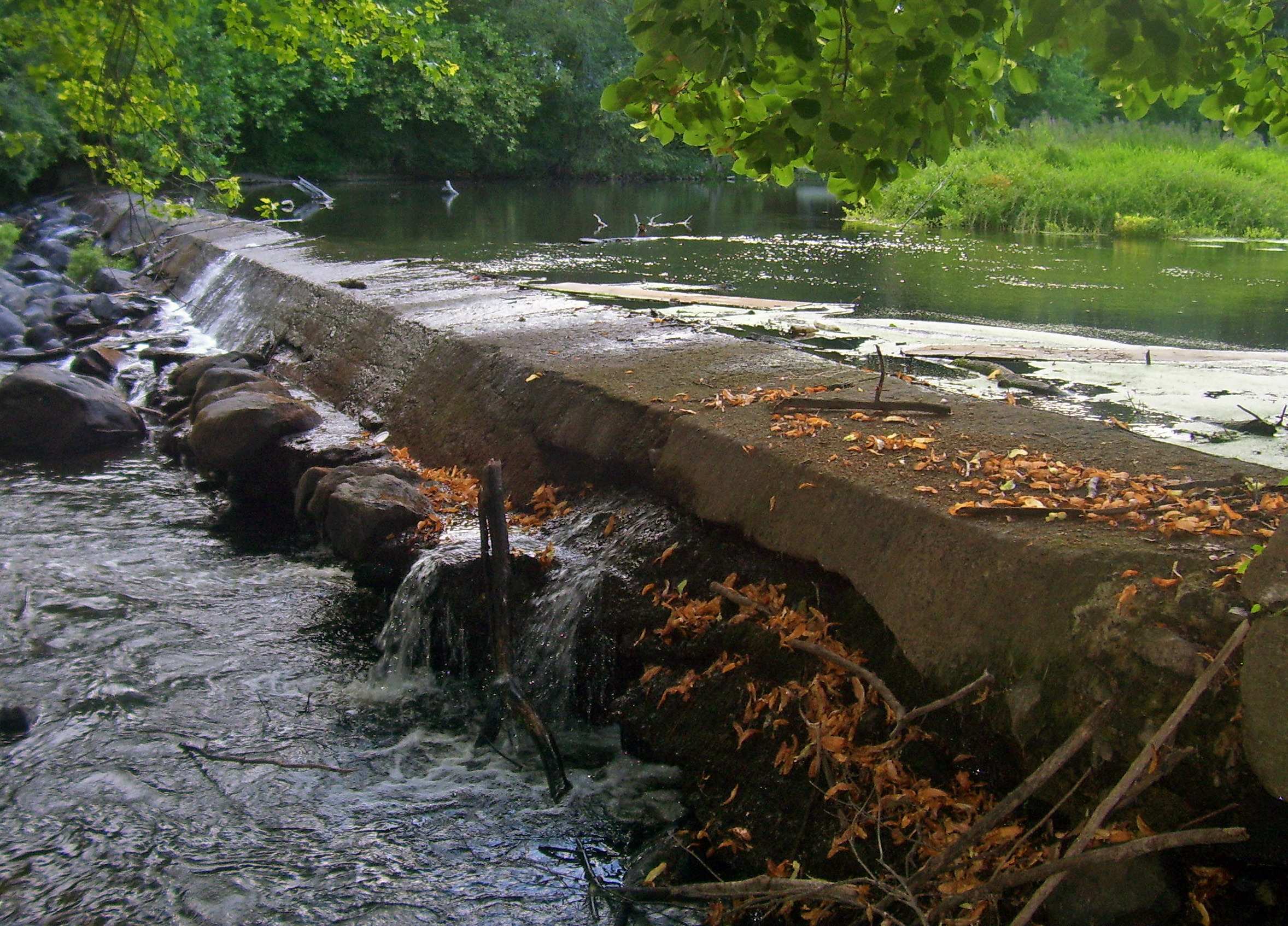 Sloat's Dam and Mill Pond, Sloatsburg, New York, USA. Originally built in 1792 and only surviving dam of three erected along the upper Ramapo River